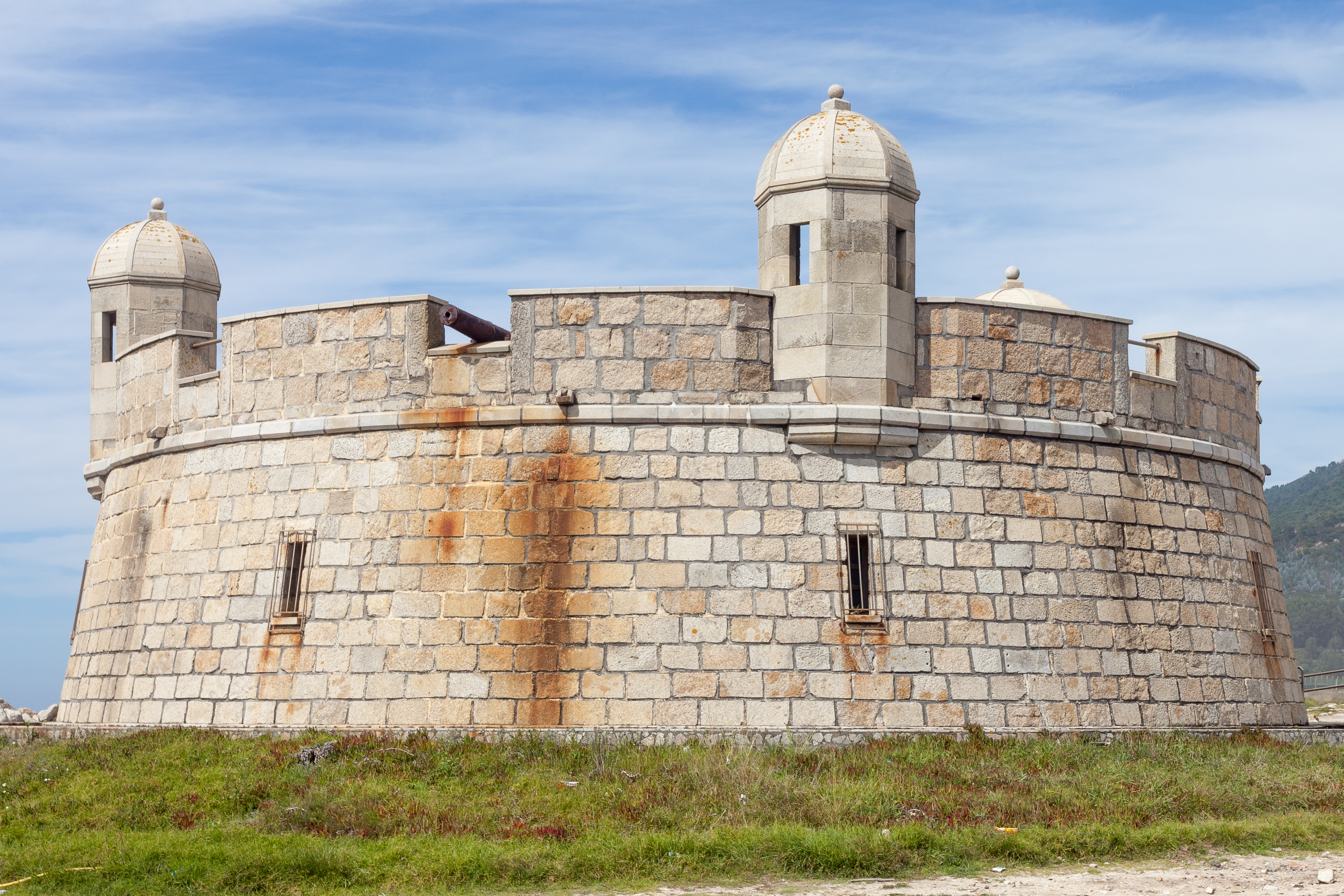 Military building for defense of A Guarda, Galicia, Spain.